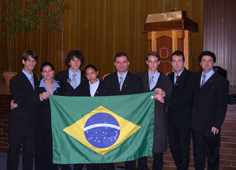 Equipe brasileira do IYPT 2004.